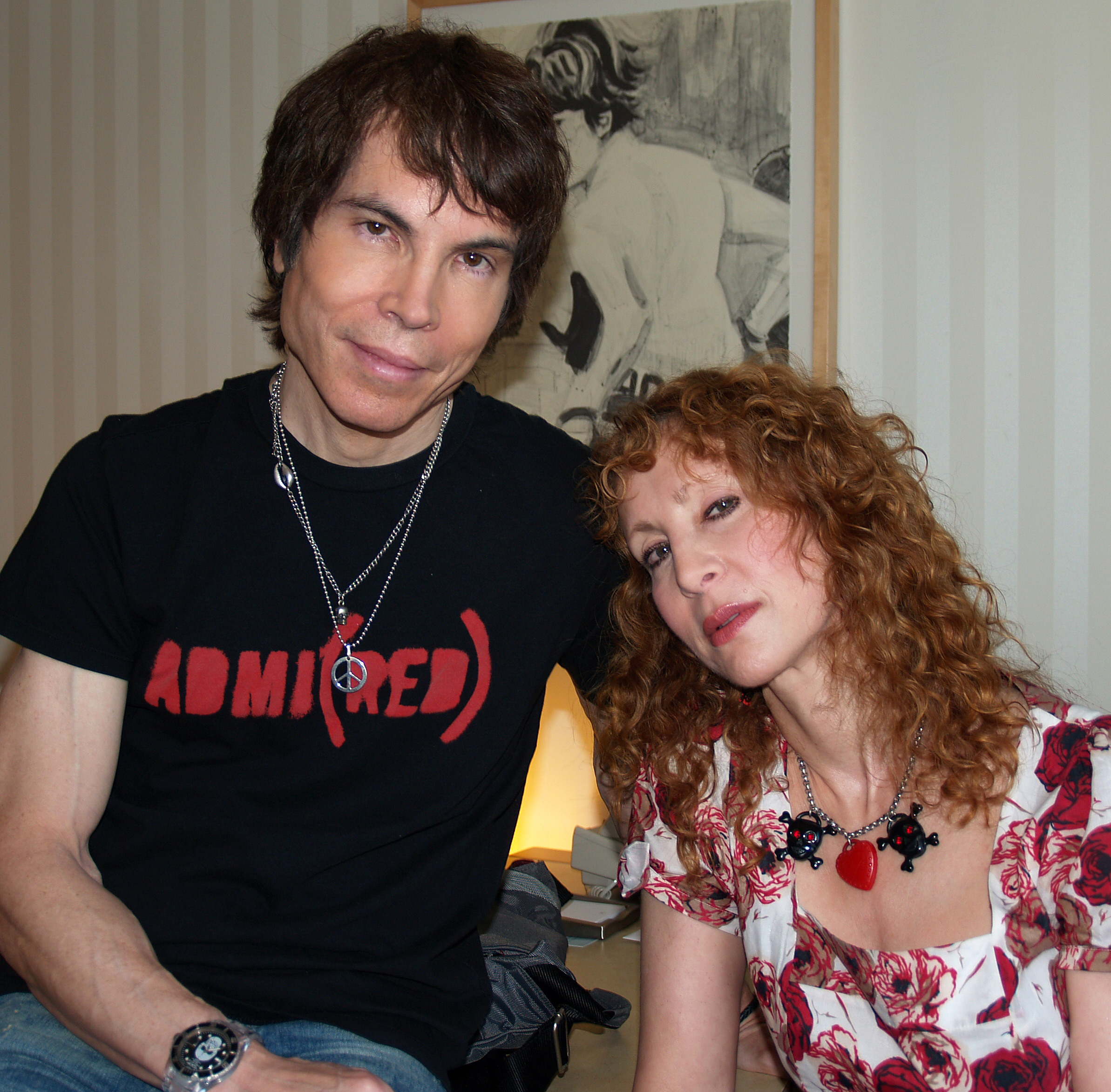 Trisha and Gerald Posner